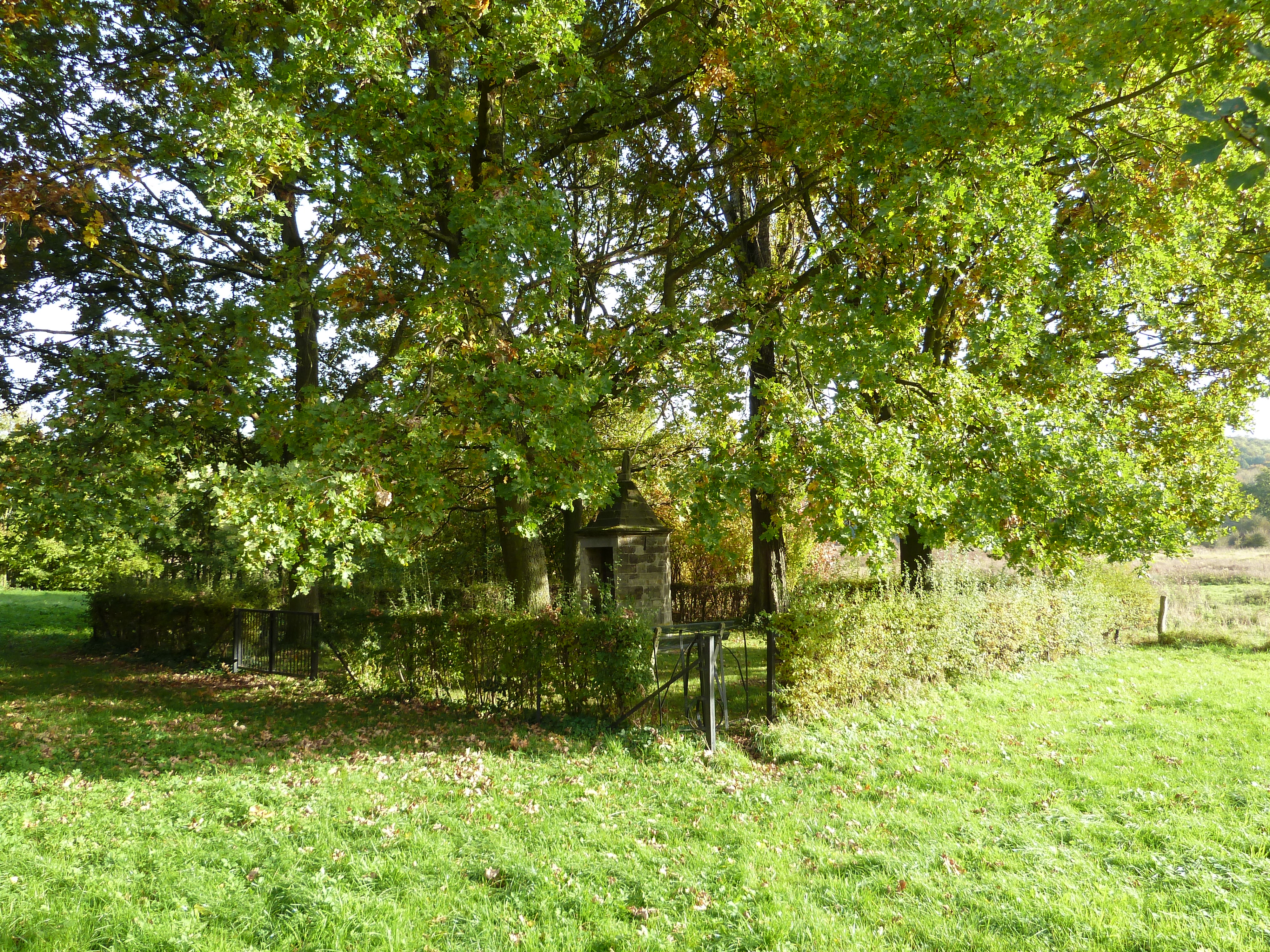 Gerlachusputje, Houthem, Limburg, the Netherlands